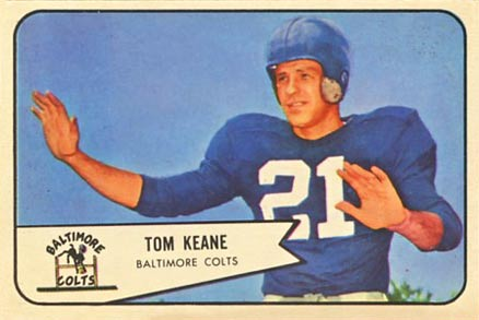 American football player Tom Keane on a 1954 Bowman card.